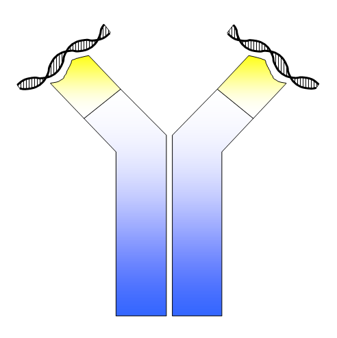 Antibody binding to DNA. These antibodies are found in the sera of systemic lupus erythematosus.